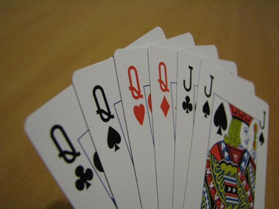 "Gradma Hand", a perfect Sheepshead's hand.